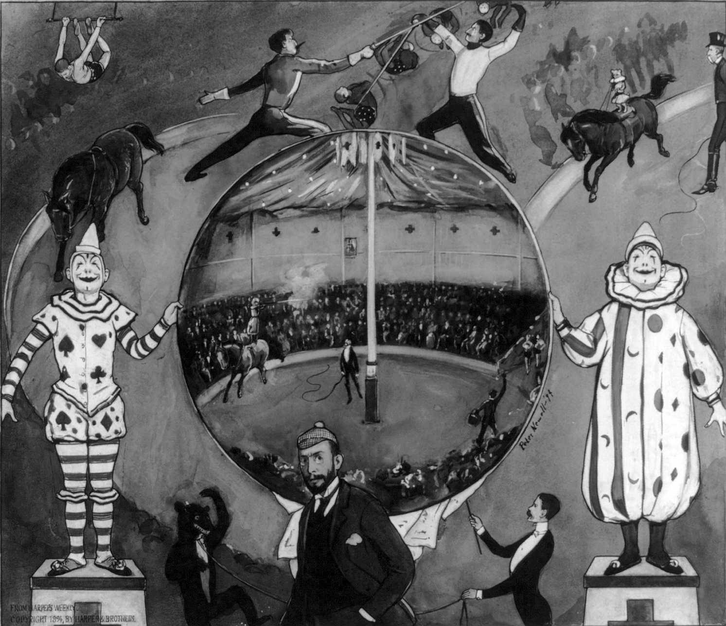 "The Amateur Circus at Nutley" by American illustrator Peter Newell (1862-1924). 1 drawing: black ink, gray wash, and gouache on illustration board, 35.5 x 40.5 cm. (sheet). LOC description: "A gentleman wearing a hat and spectacles stands before a hoop held by two clowns. The scene depicted in the center of the hoop is of Annie Oakley, standing on horseback, giving a demonstration of her shooting ability. Outside the hoop are other scenes of circus acts such as acrobats, fencing, an animal on horseback, and a dancing bear. Newell's drawing illustrates an article reporting on an amateur circus performed by the residents of Nutley, New Jersey to raise funds for the establishment of a branch of the Red Cross Association. Their star performer was Nutley's celebrated resident, Annie Oakley." Published in "Harper's Weekly", 31 March 1894. Exhibited at Library of Congress, "They Made Them Laugh and Wince and Worry," 1977-1982.